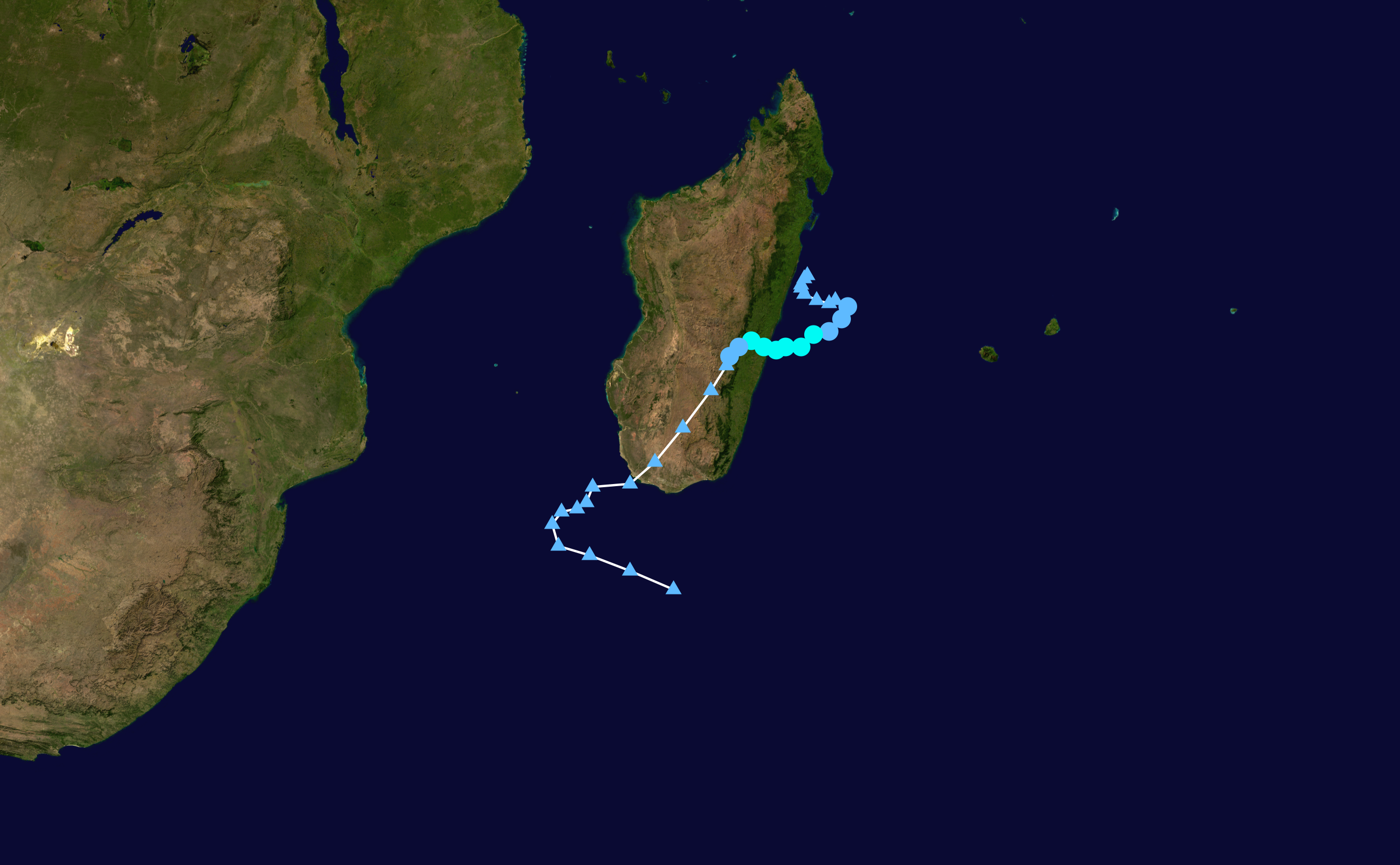 Track map of Severe Tropical Storm Hubert of the 2009-10 South West Indian Ocean cyclone season. The points show the location of the storm at 6-hour intervals. The colour represents the storm's maximum sustained wind speeds as classified in the Saffir–Simpson scale (see below), and the shape of the data points represent the nature of the storm, according to the legend below. Saffir–Simpson scale Tropical depression≤38 mph≤62 km/h Category 3111–129 mph178–208 km/h Tropical storm39–73 mph63–118 km/h Category 4130–156 mph209–251 km/h Category 174–95 mph119–153 km/h Category 5≥157 mph≥252 km/h Category 296–110 mph154–177 km/h Unknown Storm type Tropical cyclone Subtropical cyclone Extratropical cyclone / Remnant low / Tropical disturbance / Monsoon depression